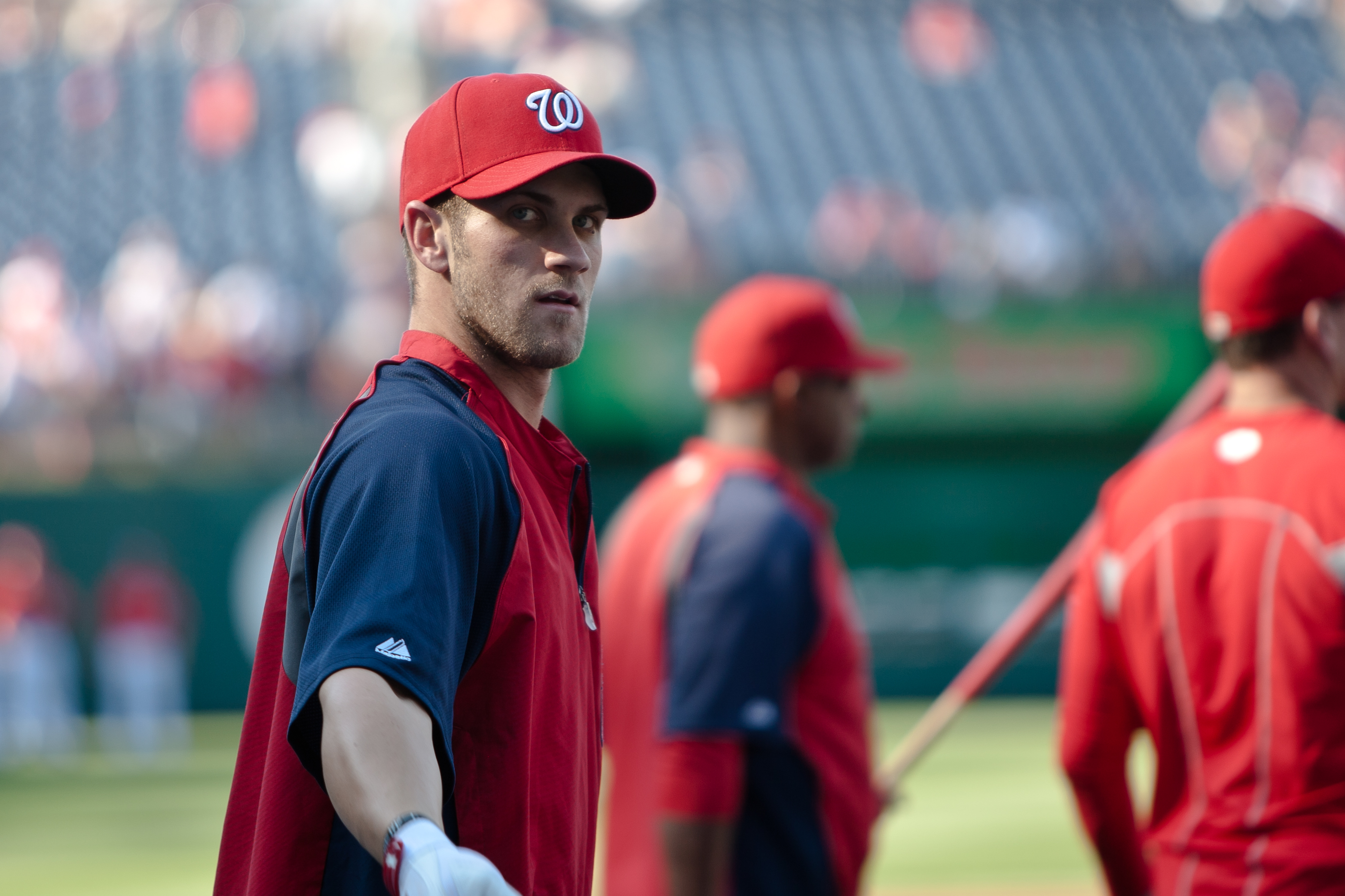 Washington Nationals baseball player Bryce Harper in Nationals Park, Washington, D.C. (on the Washington Nationals' (second-ever) "Bloggers' Day" (2012))